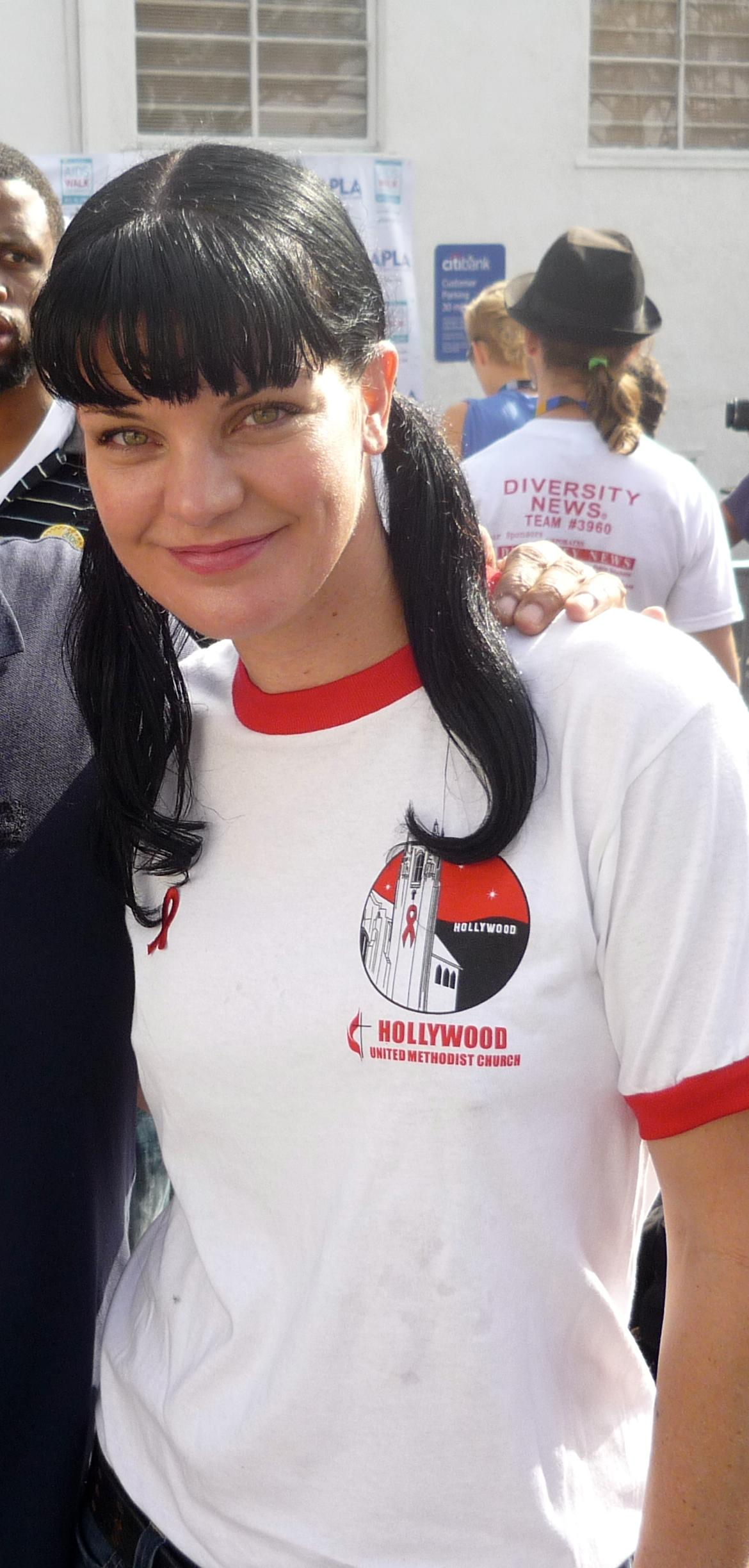 NCIS star Pauley Perrette - 25th annual AIDS Walk in Los Angeles.